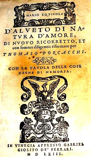 First page of Equicola De Natura d'amore (1563), edition by De 'Ferrari from Venise in 1563.